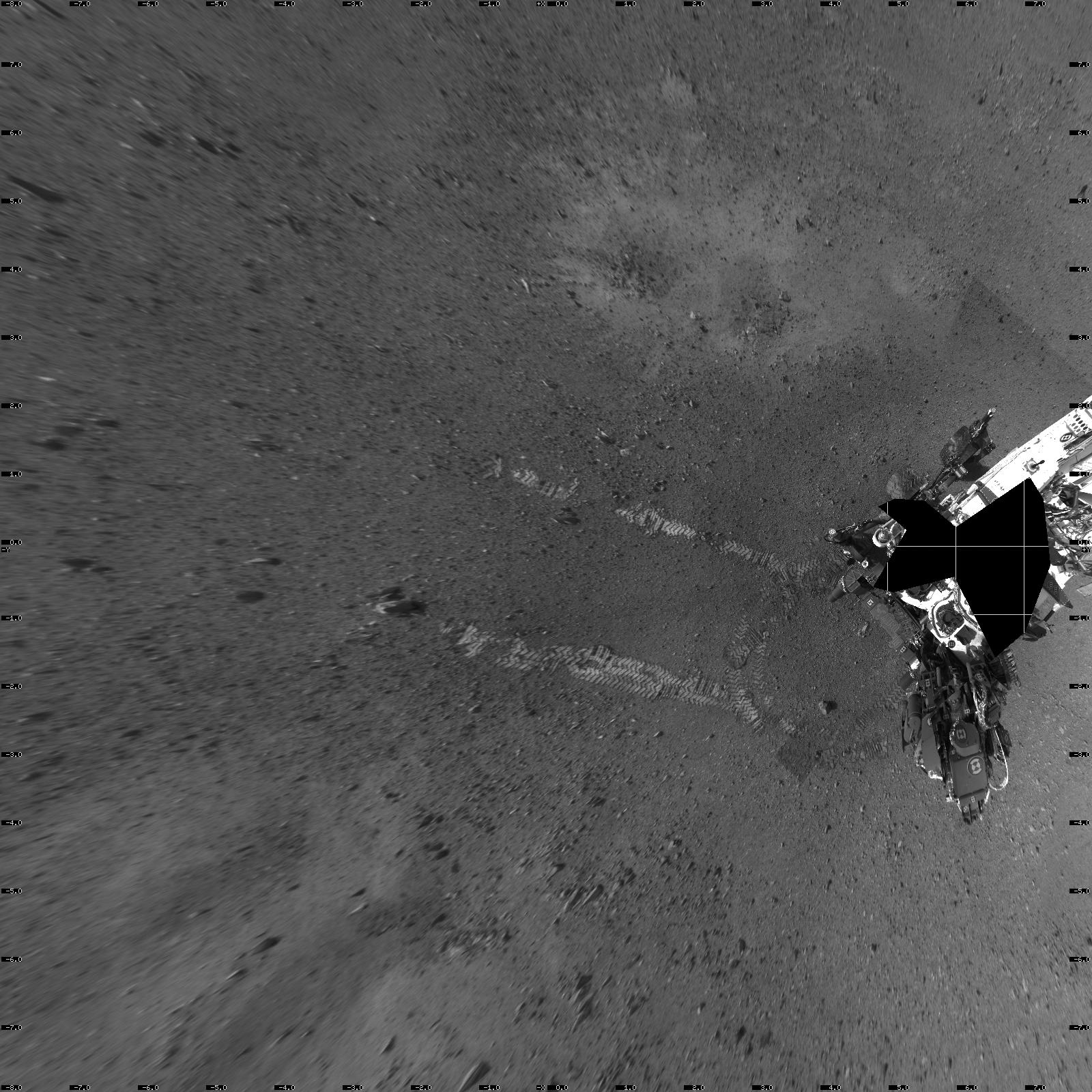 08.22.2012 Rover Takes Its First 'Steps' This overhead view shows evidence of a successful first test drive for NASA's Curiosity rover. On Aug. 22, 2012, the rover made its first move, going forward about 15 feet (4.5 meters), rotating 120 degrees and then reversing about 8 feet (2.5 meters). Curiosity is now about 20 feet (6 meters) from its landing site, named Bradbury Landing. This mosaic from the rover's Navigation camera is made up of 23 full-resolution frames, displayed in a vertical projection. Image Credit: NASA/JPL-Caltech